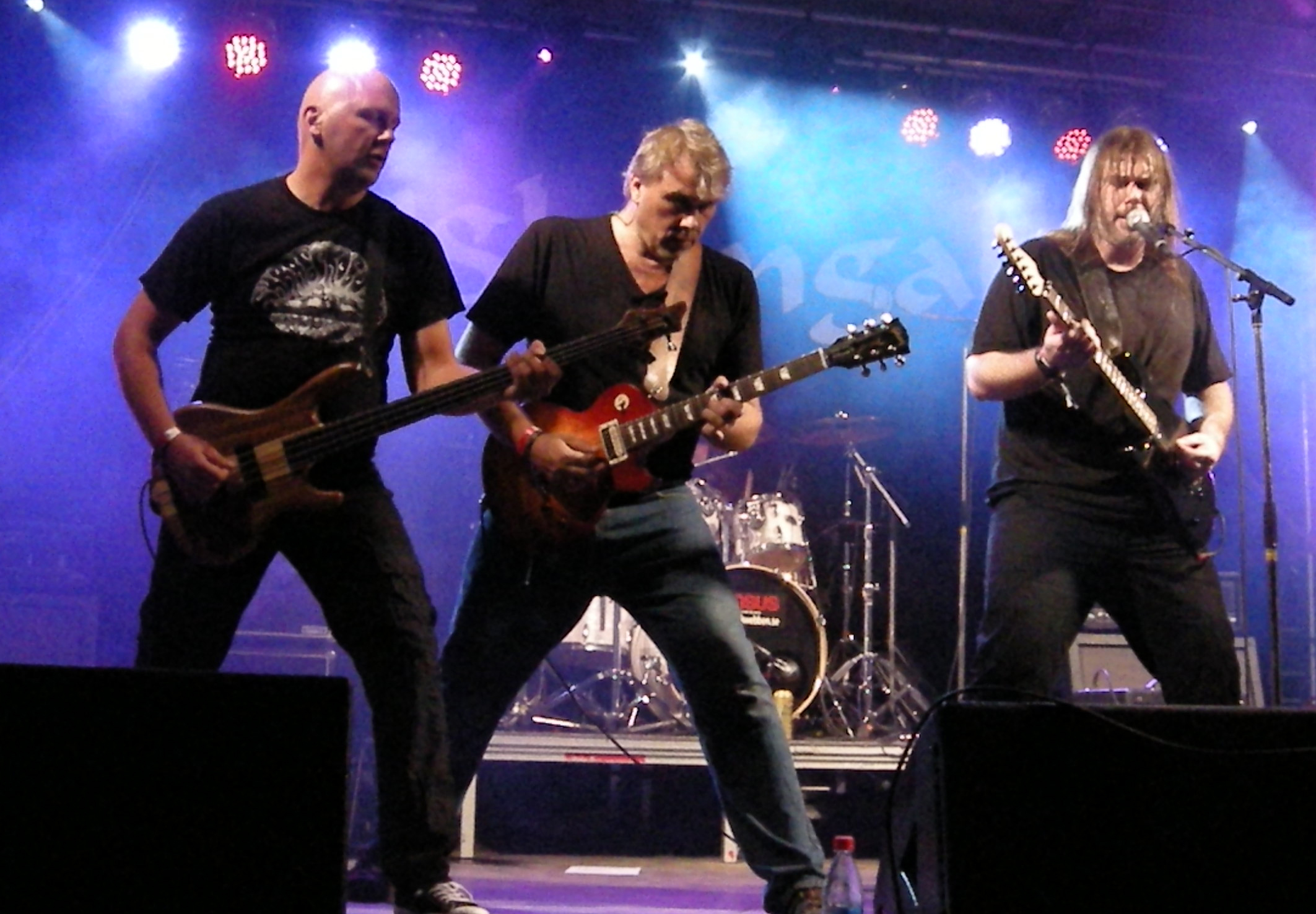 Swedish progressive rock band Nightingale at Skogsröjet 2012